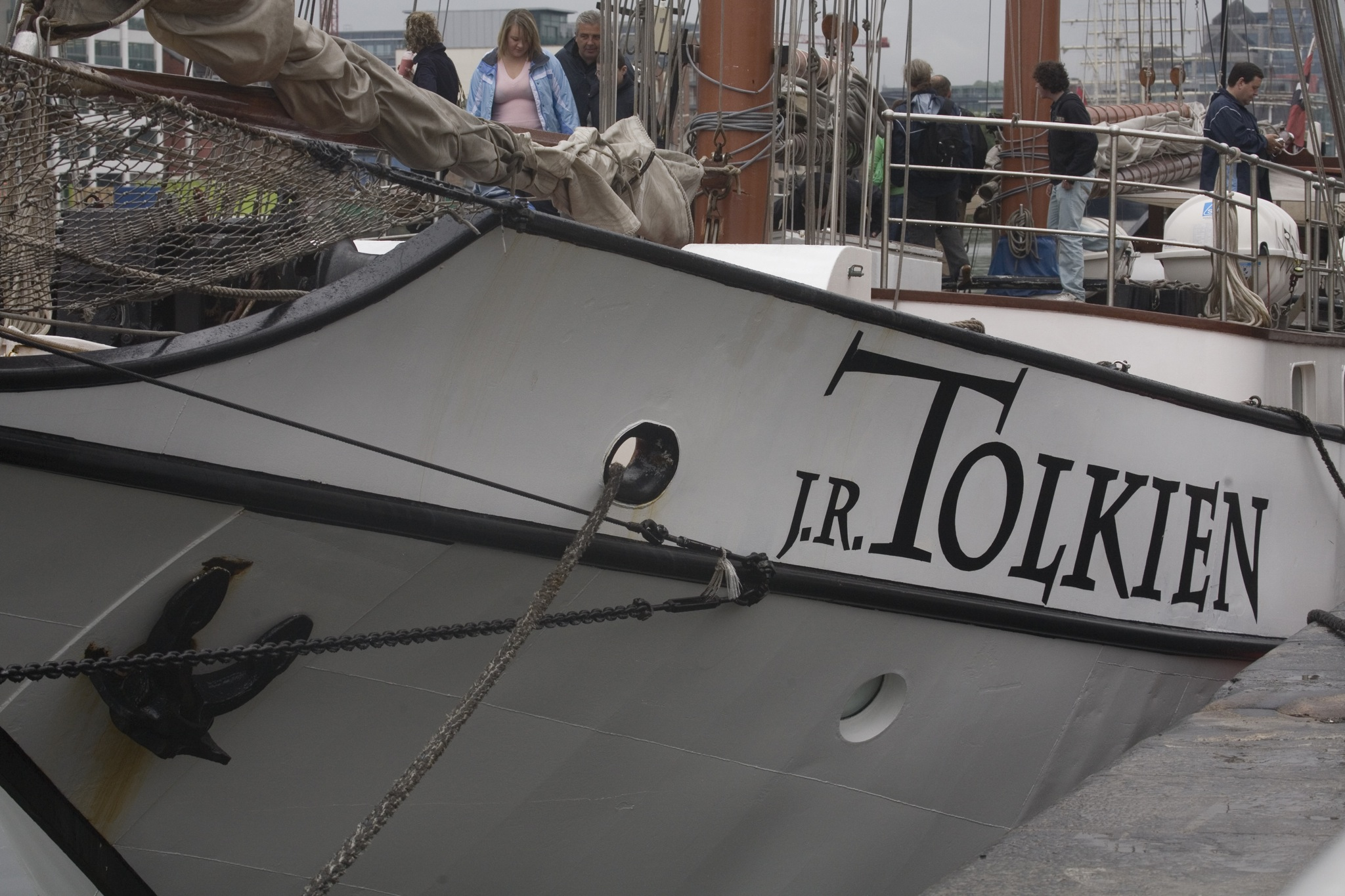 J.R. Tolkien is an elegant gaff-topsail schooner of 42 metres. J.R. Tolkien often sails in the Baltic. With so much luxury, it's hard to believe that this ship was launched originally as the tug Dierkow in 1964. The tug was sold on and converted to her present use in 1994.